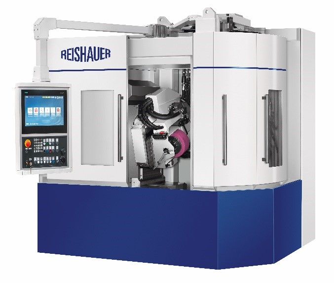 Modern continuous generating gear grinding machine RZ160 for automotive transmission gears